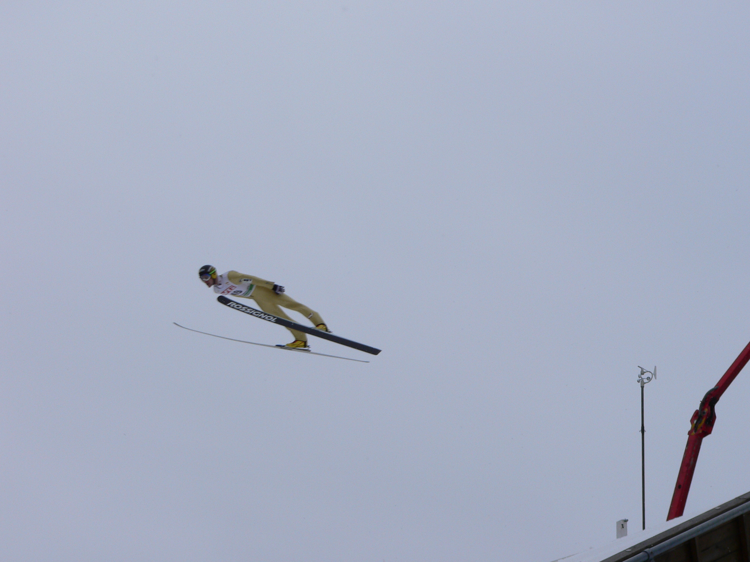 From the 2005 World Cup ski jumping event in Holmenkollen.